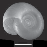 Photo of the shell of Biomphalaria tenagophila. Scale bar = 3 mm. Locality: near Răbăgani, Romania, Eastern Europe (46°45´1.3´´N, 22°12´44.8´´E) in a hypothermal spring. Date: spring 2005, autumn 2006, and autumn 2007.